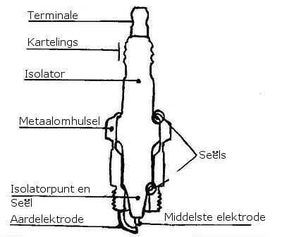 Parts of a sparkplug.